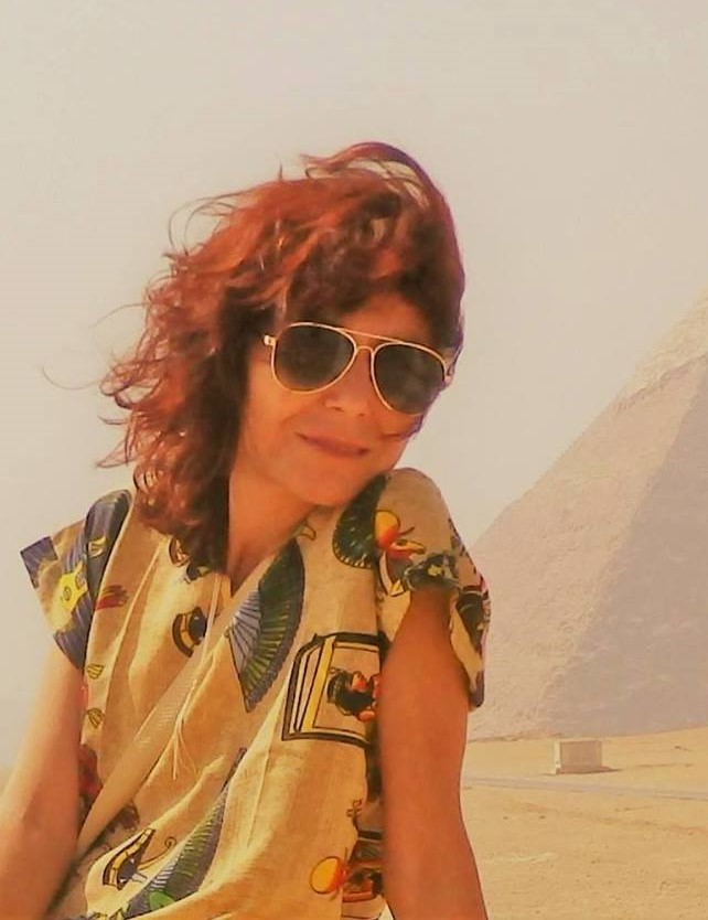 V Vachkova in Egypt